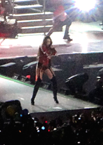 Miley Cyrus performing during the Gypsy Heart tour, in Rio de Janeiro (Brazil).